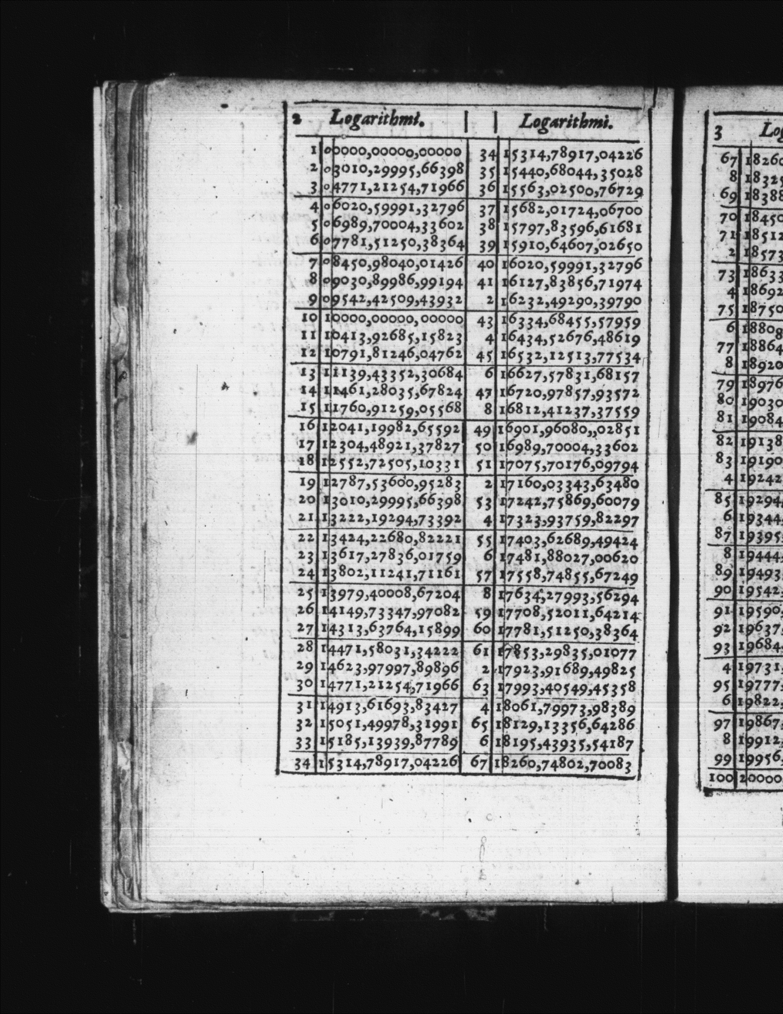 A page from Henry Briggs' first table of common logarithms, Logarithmorum Chilias Prima, from 1617. Image from microfilm of copy in the British Museum. This page tabulates the base-10 logarithms of the numbers 0 to 67 to fourteen decimal places.